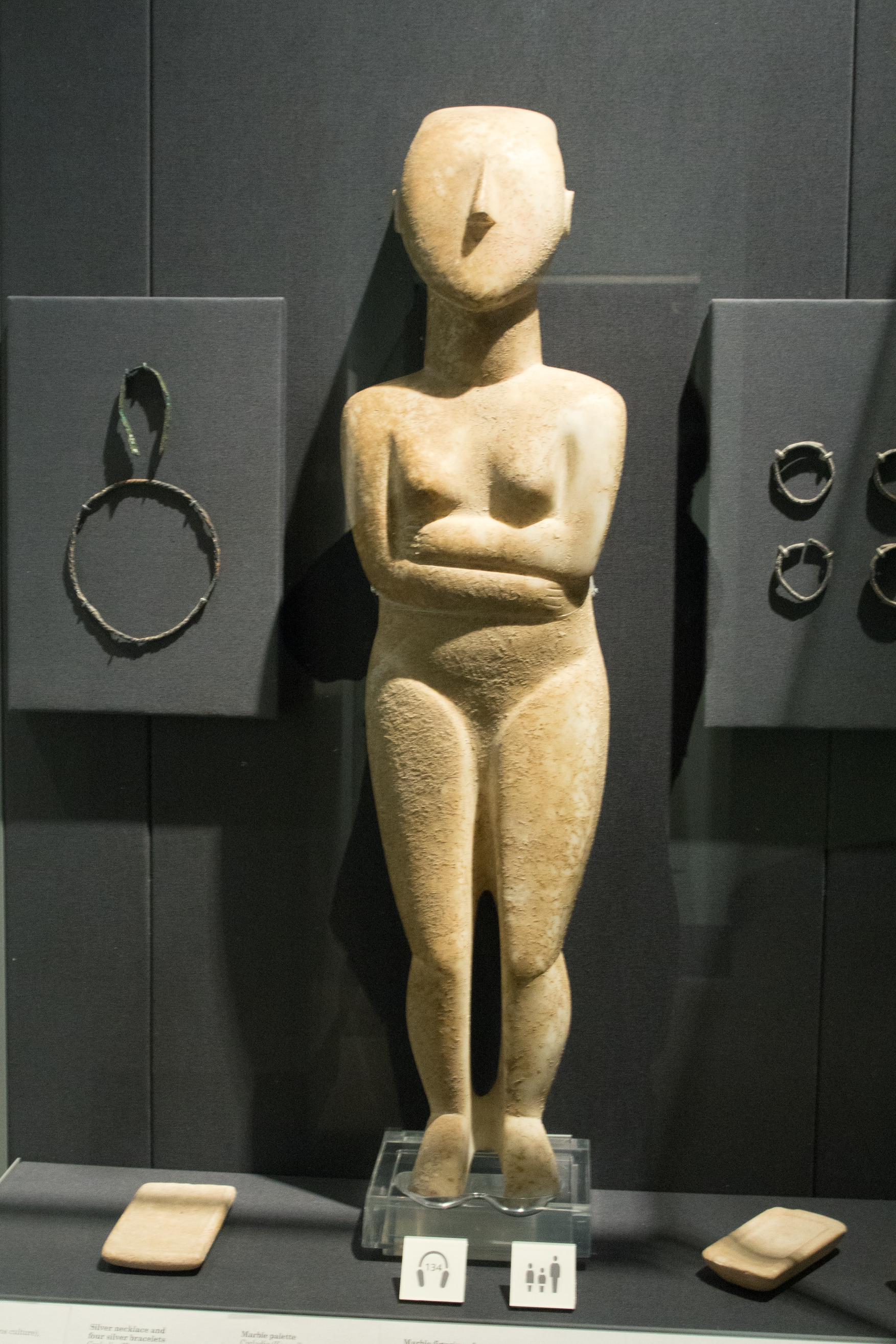 Cycladic figurine of a woman, marble, early Spedos variety. Early Bronze Age, Keros-Syros culture, EC II, 2700–2500 BC, British Museum, GR 1971.5-21.1.